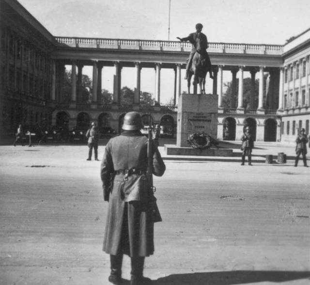 German guards around Józef Poniatowski Monument in front of Saxon Palace on Piłsudski Square.